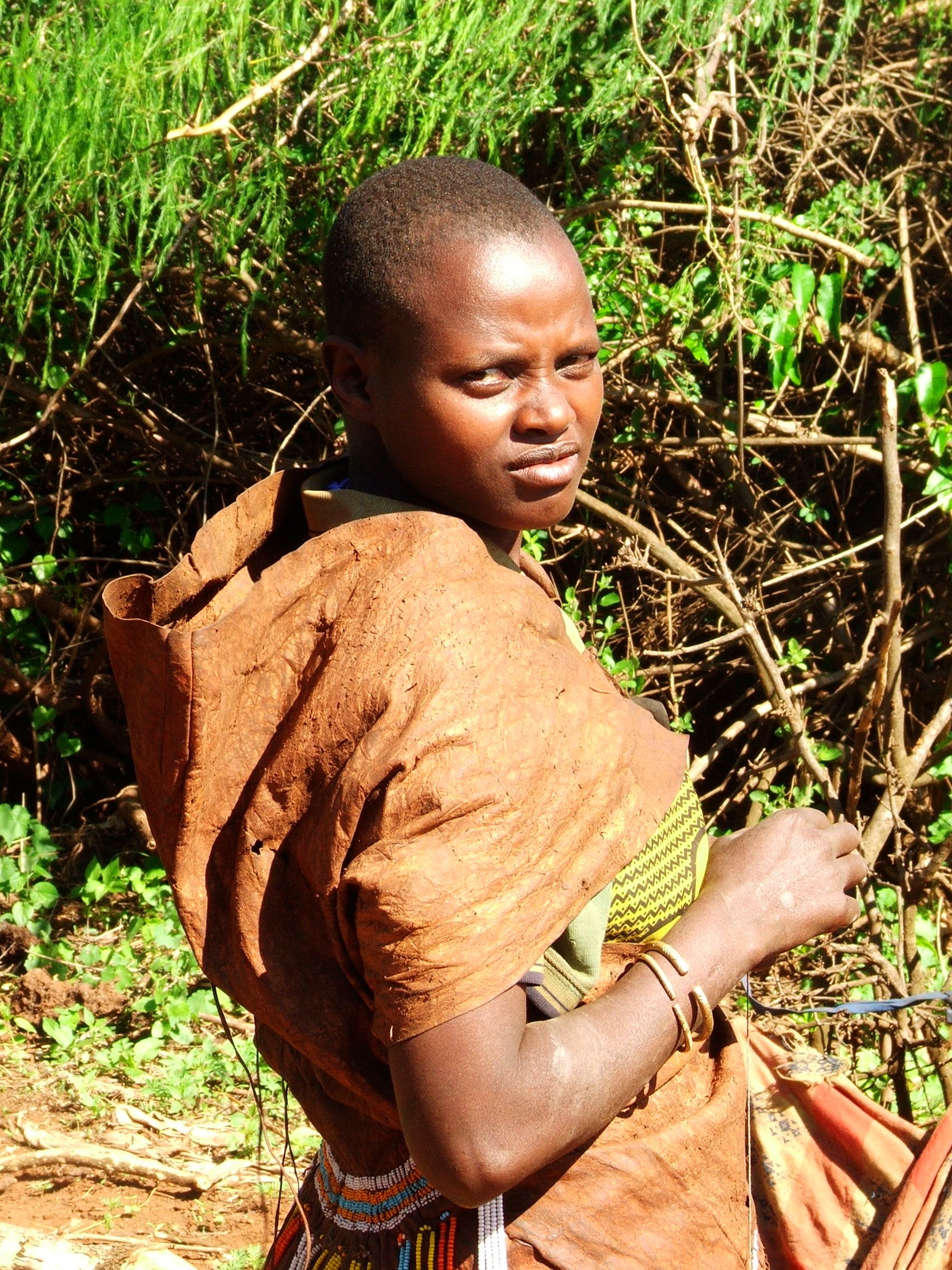 Woman from the Barabaig tribe near Katesh, near Mt. Hanang, Tanzania, in traditional clothing.